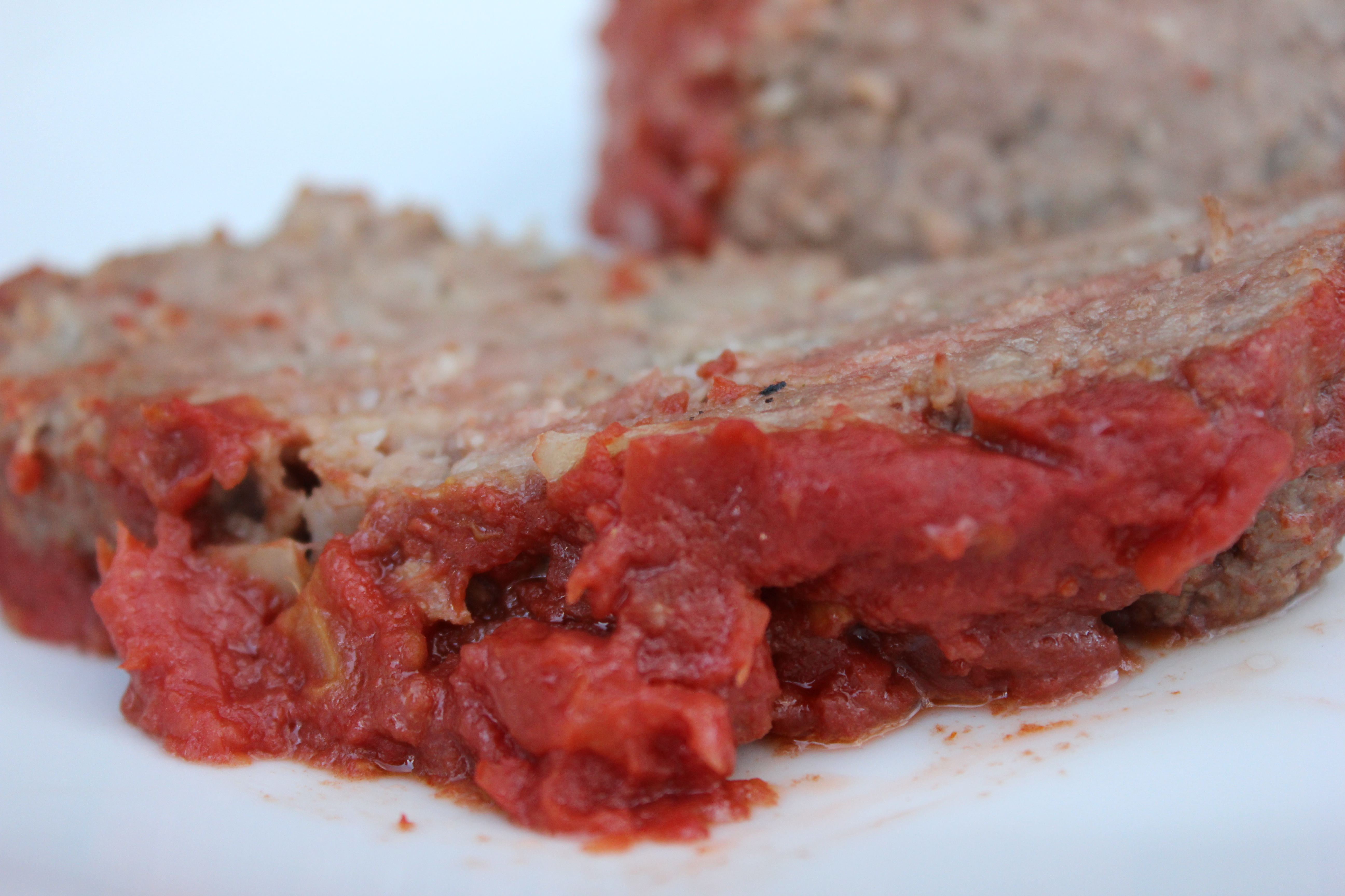 Meatloaf created with cracker crumbs, onion, ground beef, and tomato based sauce.